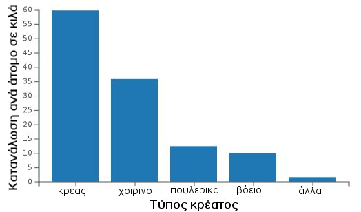 Από στατιστικές πληροφορίες για τη Γερμανική κουζίνα.